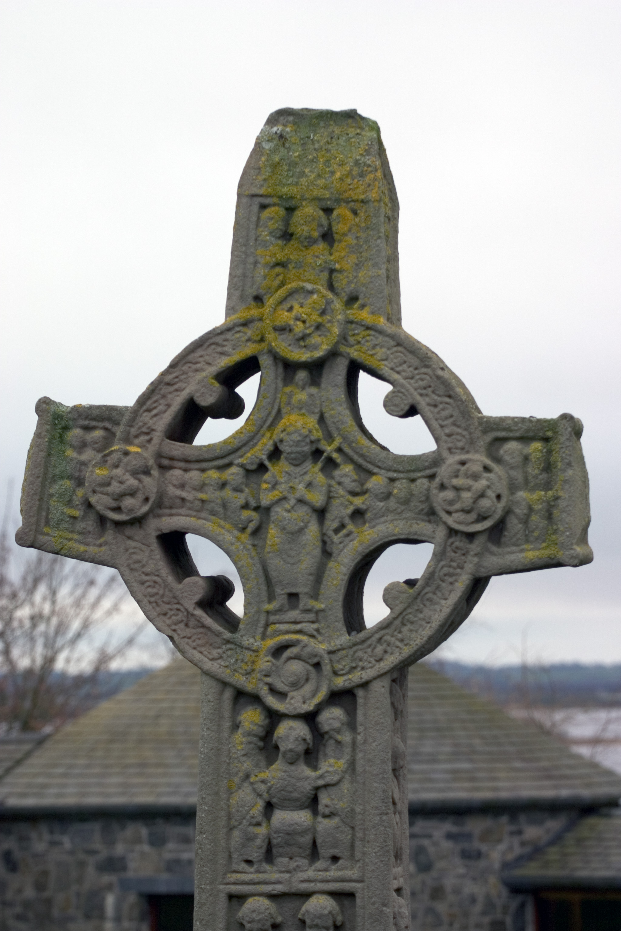 Irish high cross, Clonmacnois, County Offaly, Ireland.